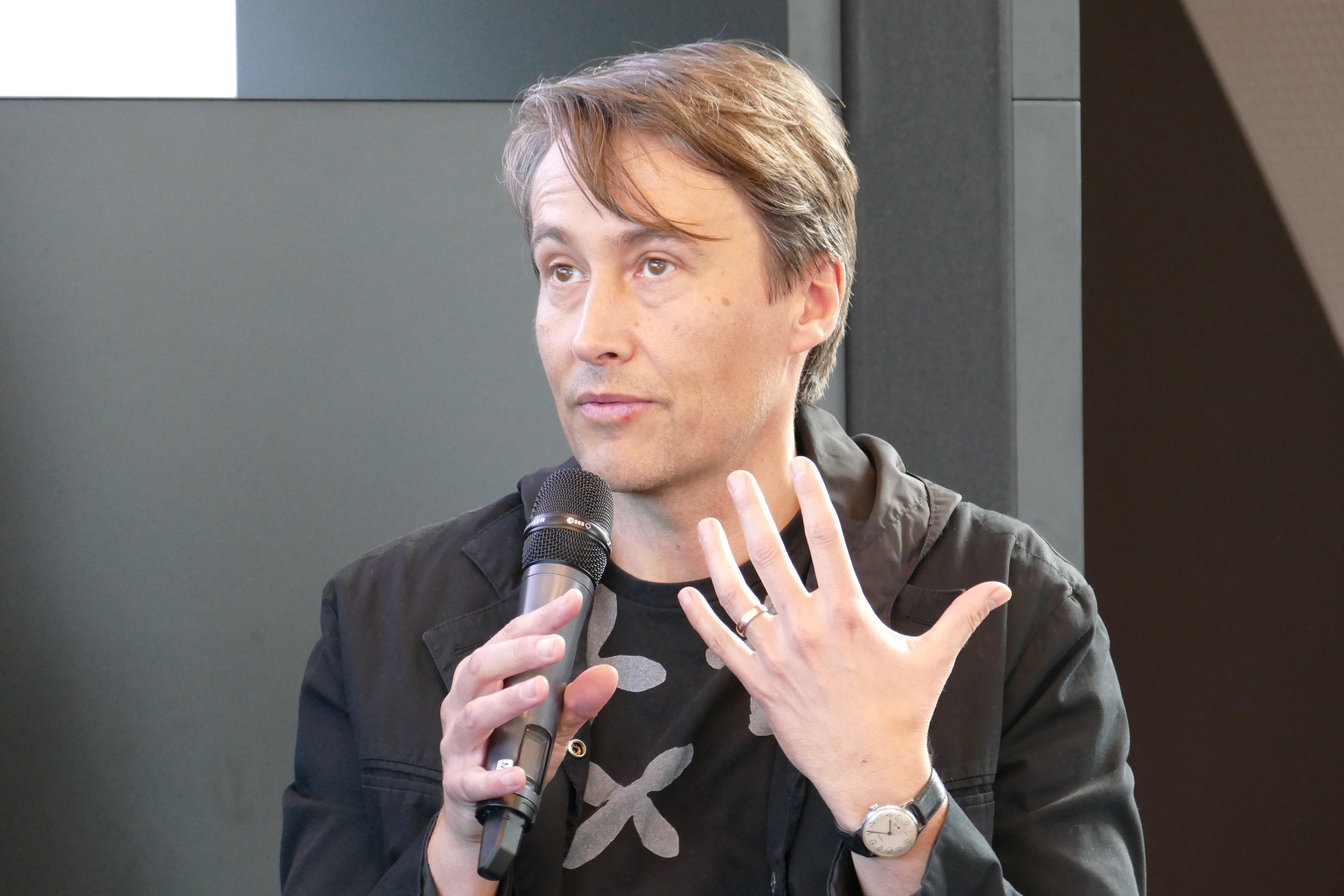 Aleš Šteger at Fokus Lyrik 2019 in Frankfurt